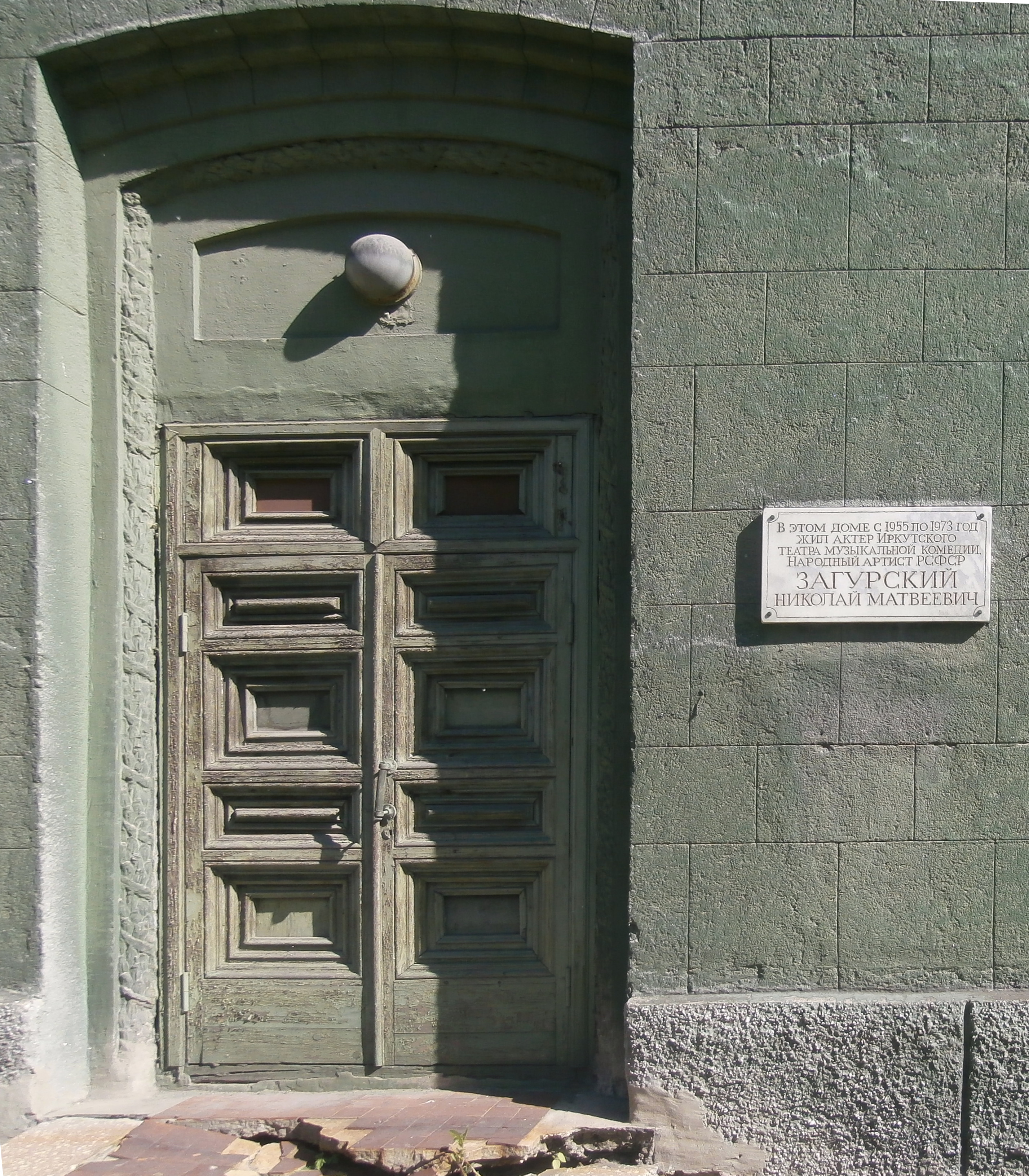 Plaque commemorating the house of N. M. Zagurskiy. 18 Rossiyskaya st., Irkutsk, Russia.